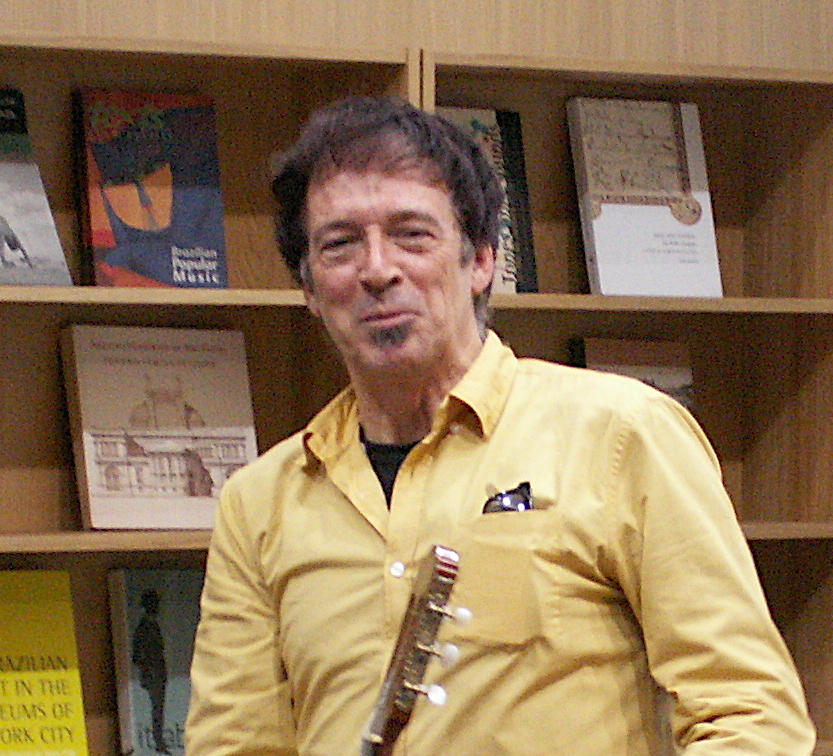 At the Göteborg Book Fair 2014.